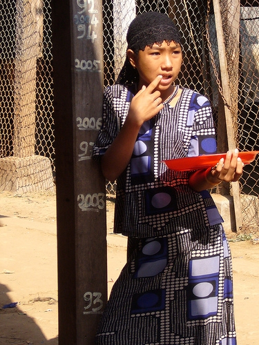 Girl in a Cham minority village along the banks of the Mekong river, Vietnam.